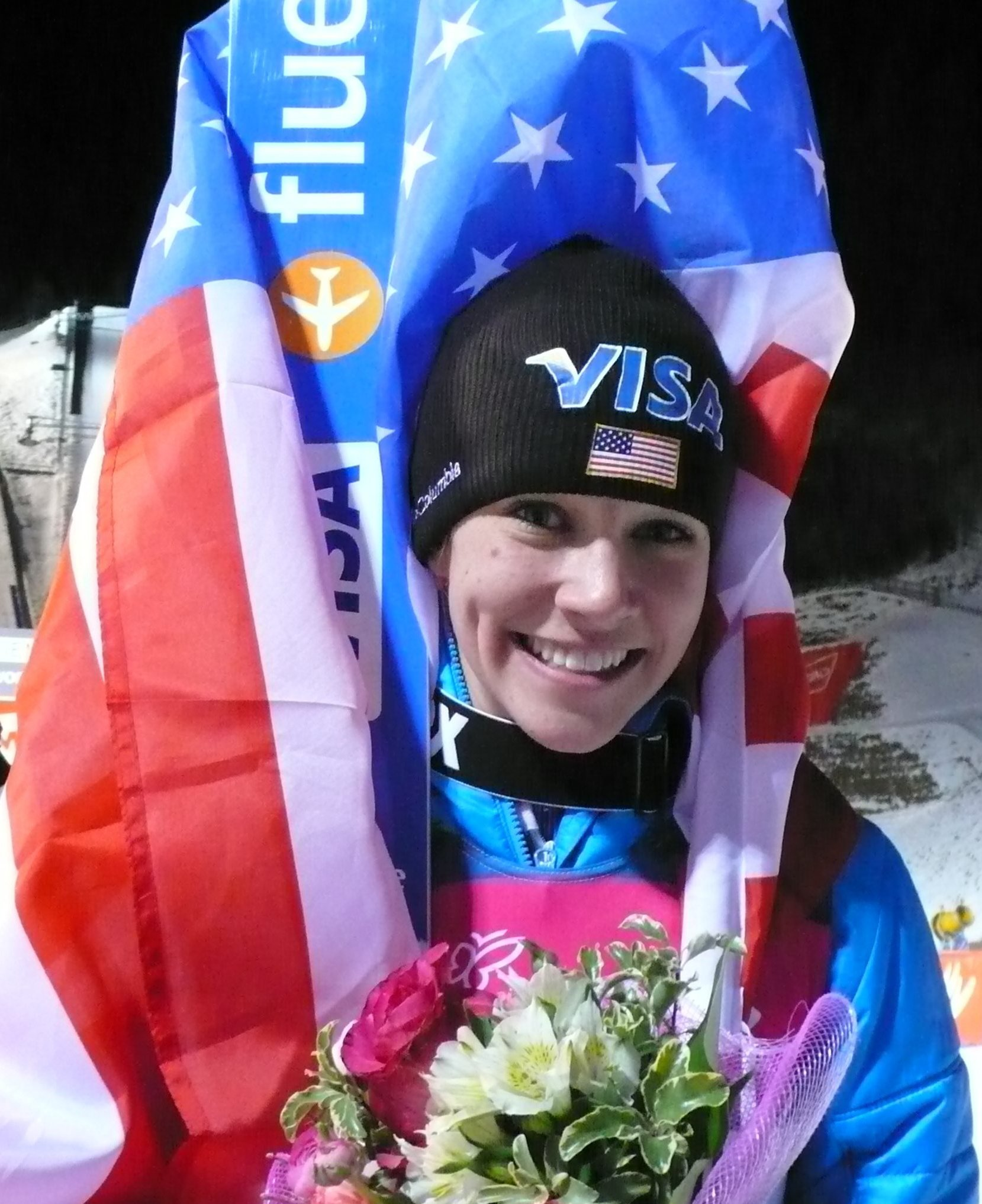 Sarah Hendrickson, 1st at the Ladies Skijumping Worldcup in Predazzo on the 2012-01-15.